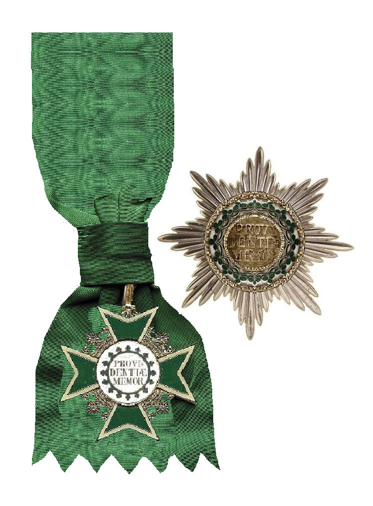 Orden der Rautenkrone